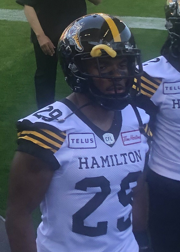 Jackson Bennett, defensive back and running back for the Hamilton Tiger-Cats.